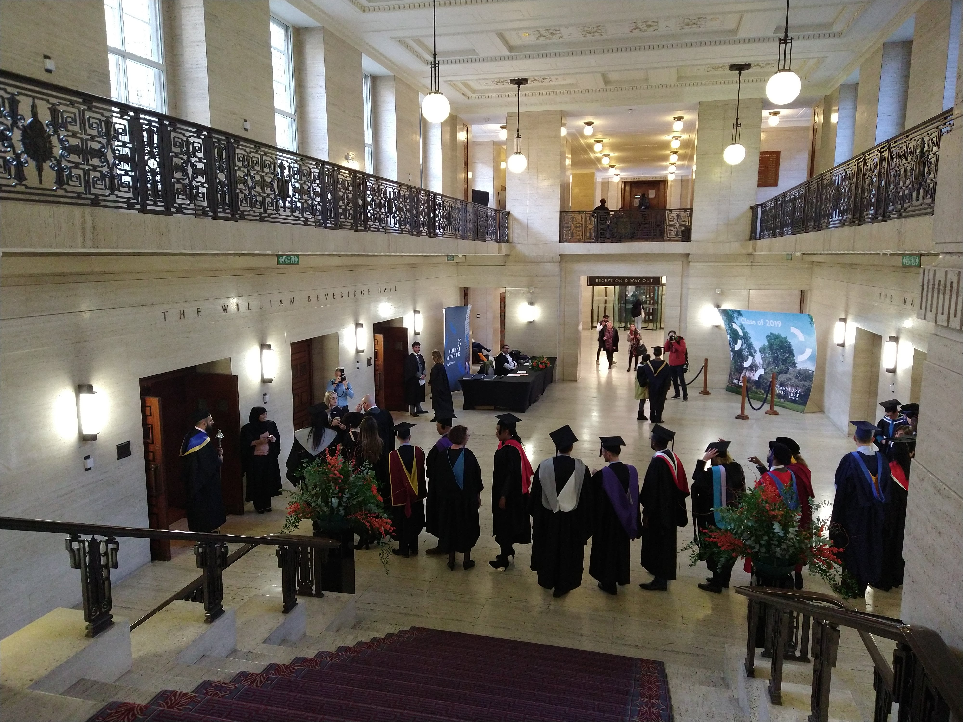 Bloomsbury Institute graduation, Senate House, 29 Nov. 2019